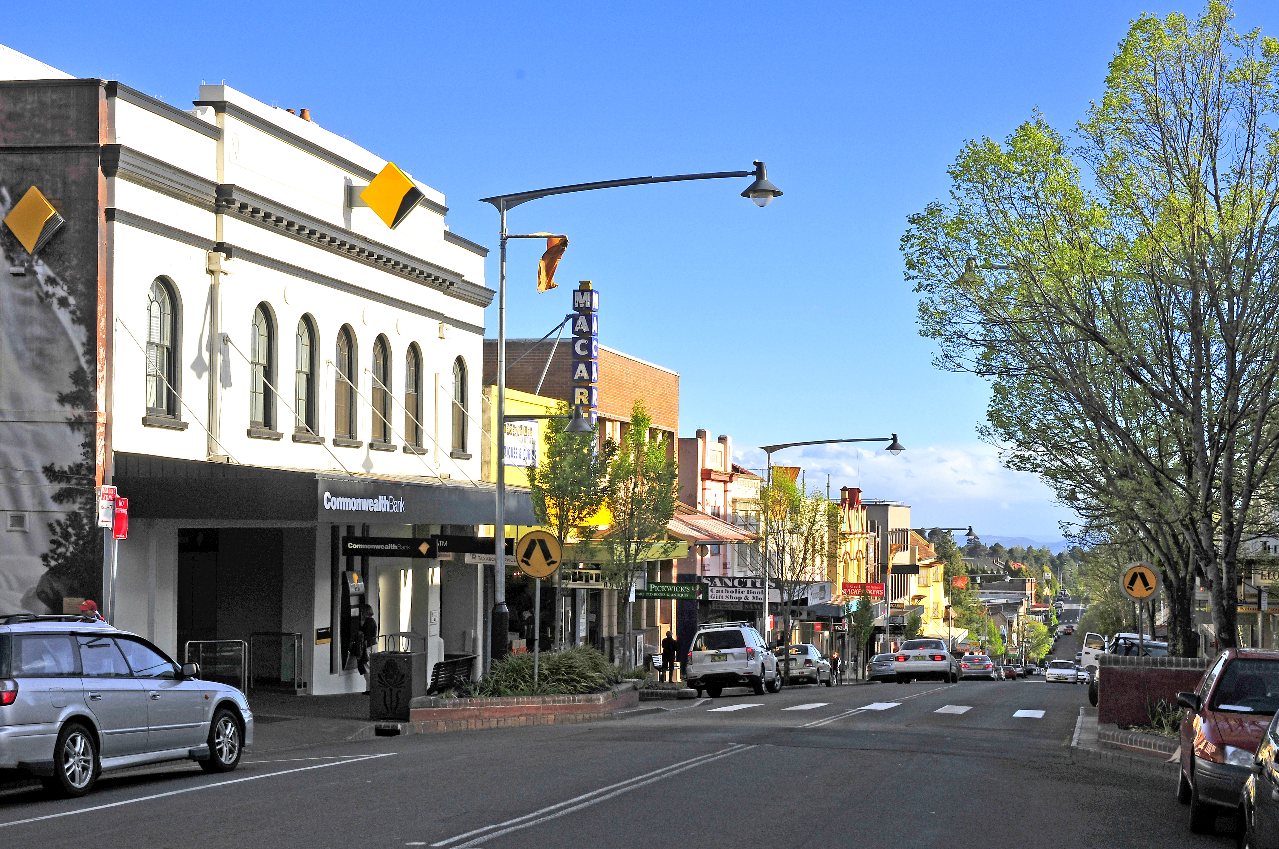 A street. Katoomba, New South Wales, Australia